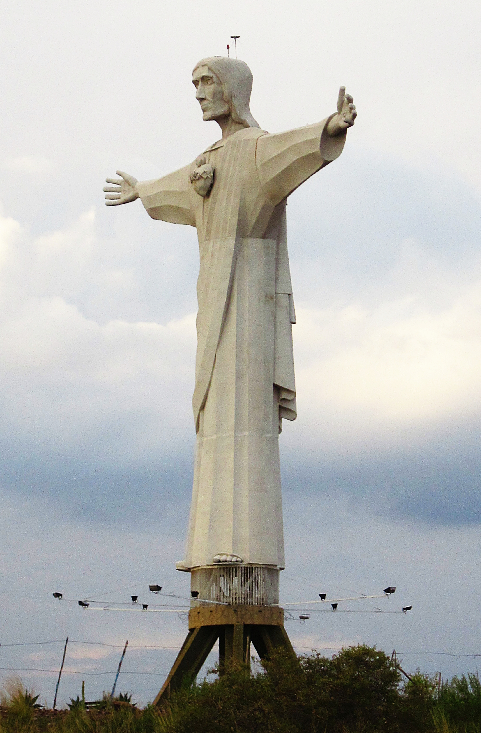 Cristo Rey Tupungato. Una escultura de unos 28 metros de altura que puede verse sobre cerros.